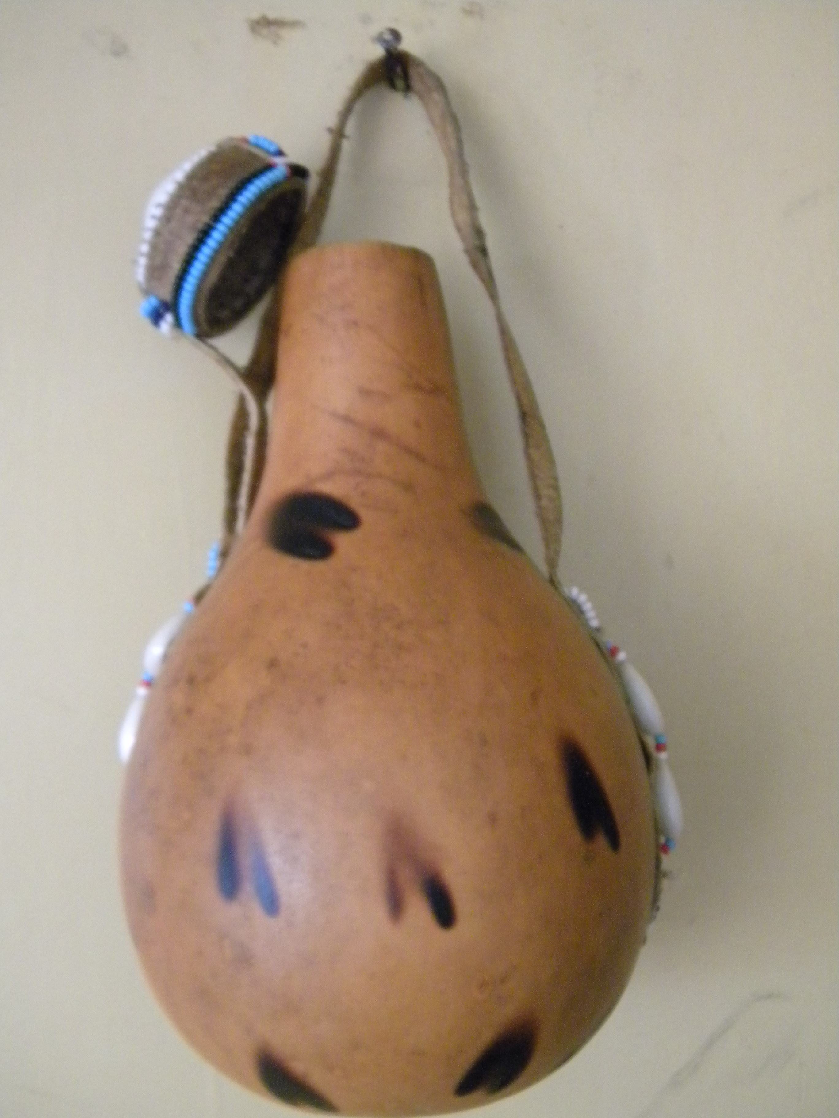 A traditional utensil used to store sour milk, localy known as Mursik in Kenya.